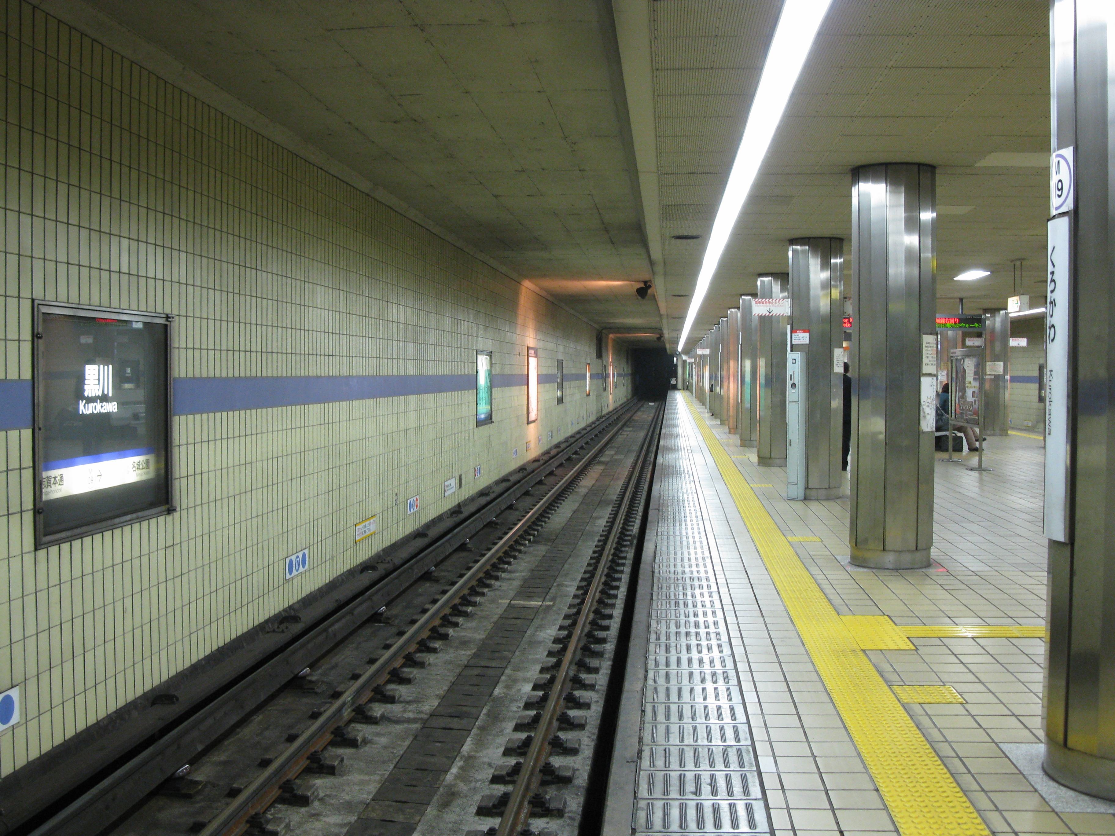 Kurokawa Station platform (Nagoya Municipal Subway Meijō Line)